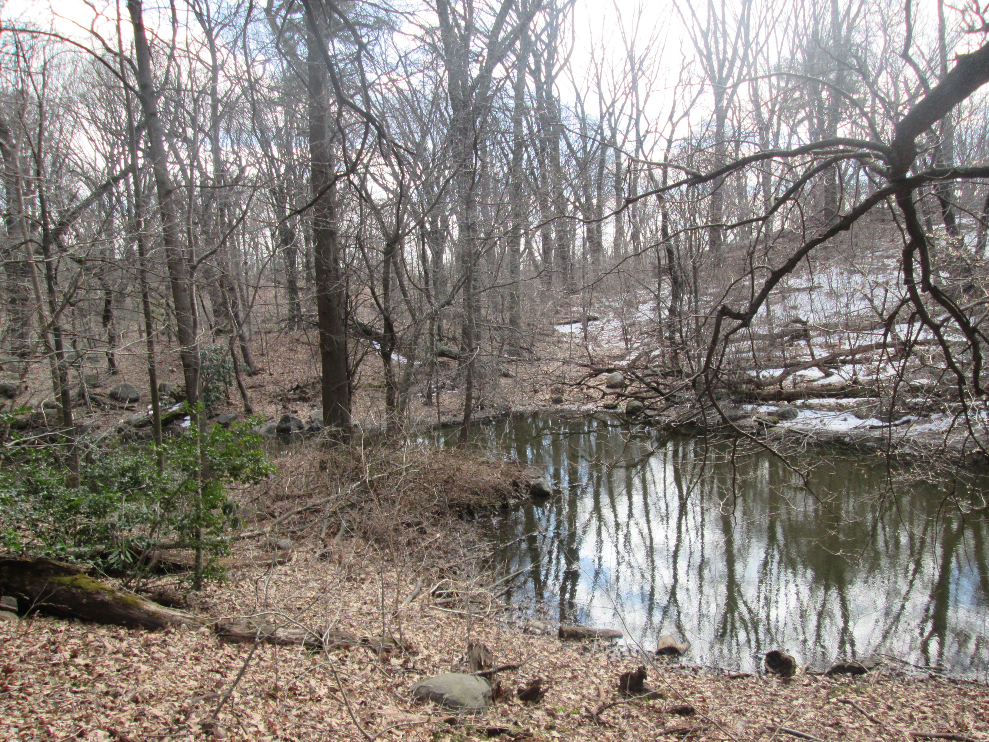 Prospect Park in Brooklyn, New York; watercourse in the Ravine, looking south